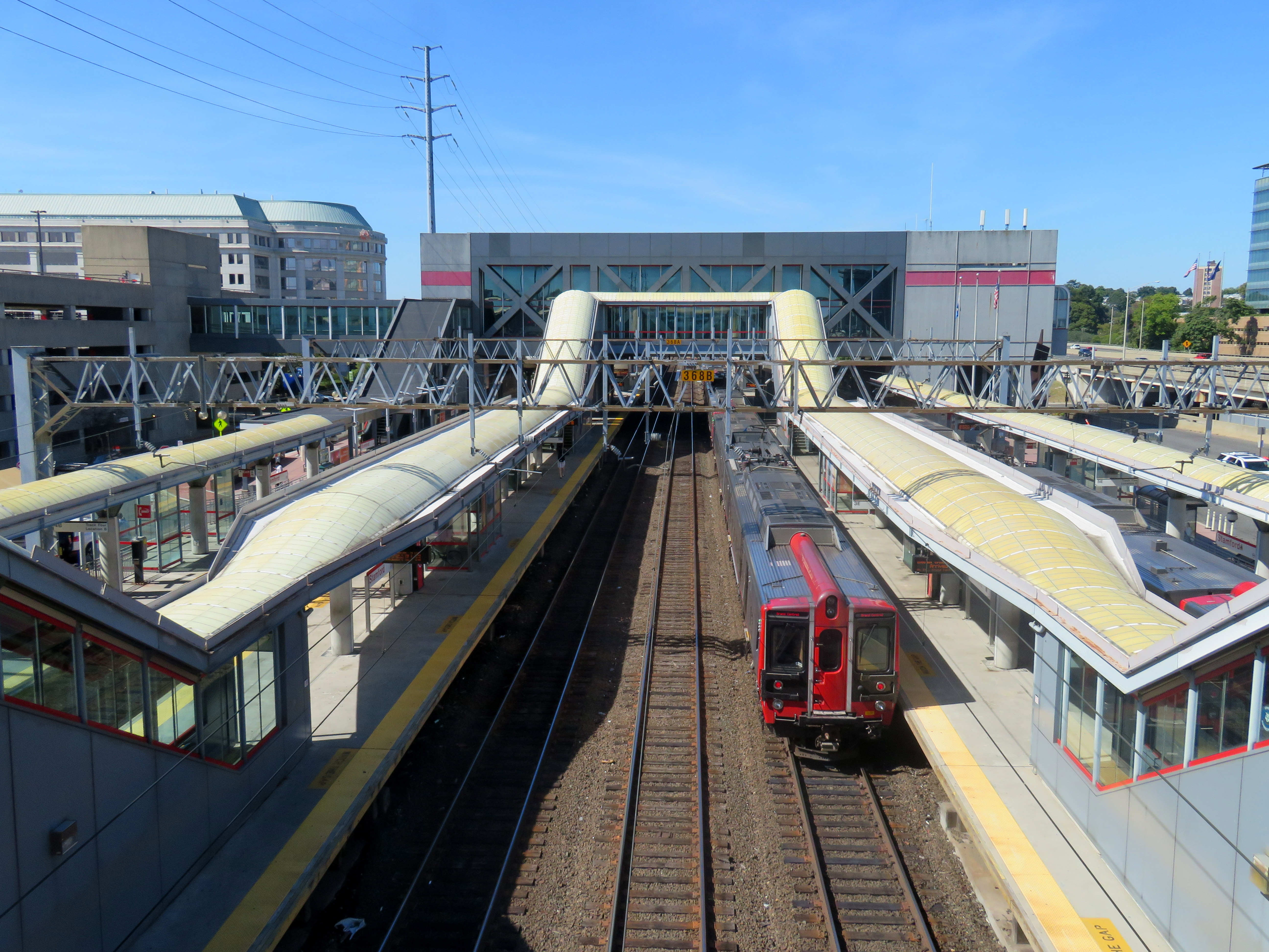 A Grand Central-bound local train on Track 3 at Stamford station in September 2018